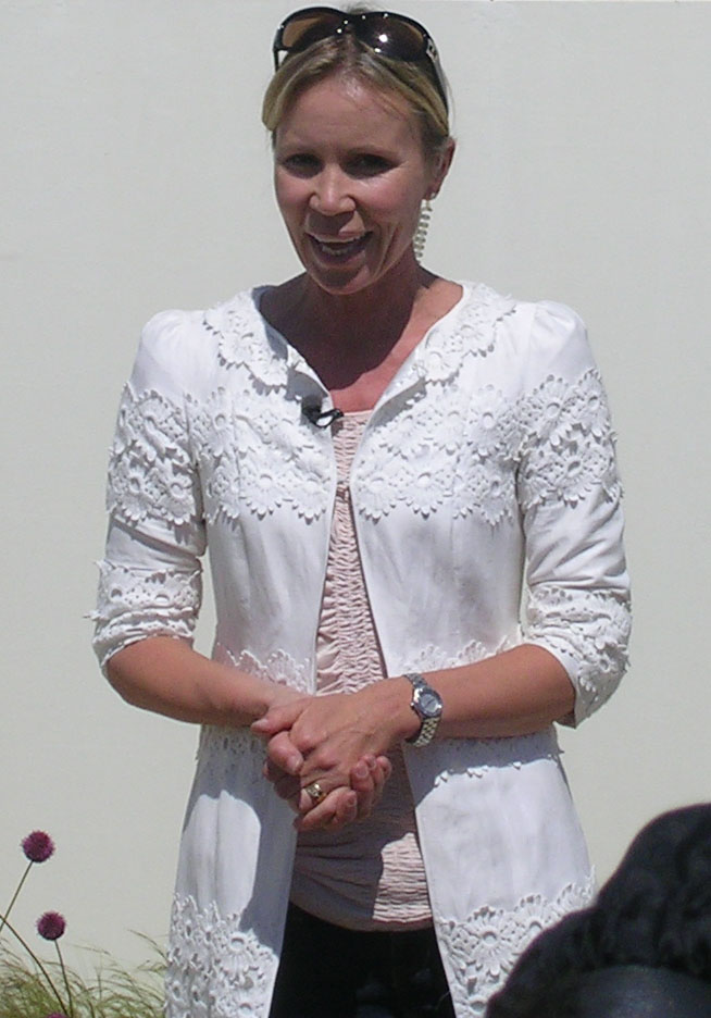 Picture of Dianne Oxberry, taken by myself, at RHS Tatton Park show, while she was doing a piece to a BBC camera